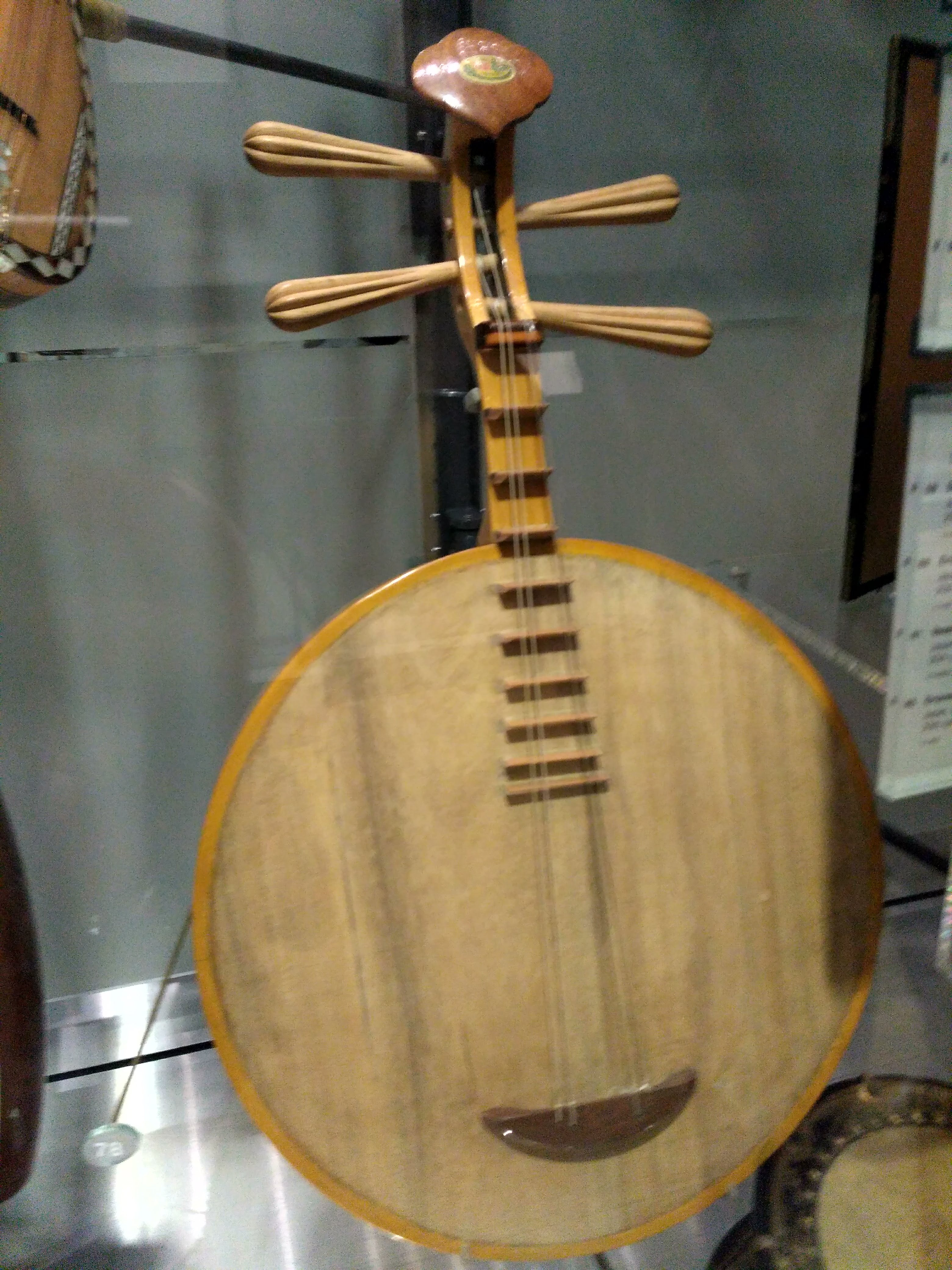 Yueqin, from a set of images of musical instruments from the Horniman Museum in London, UK. Taken by Jo Dusepo 24/5/19